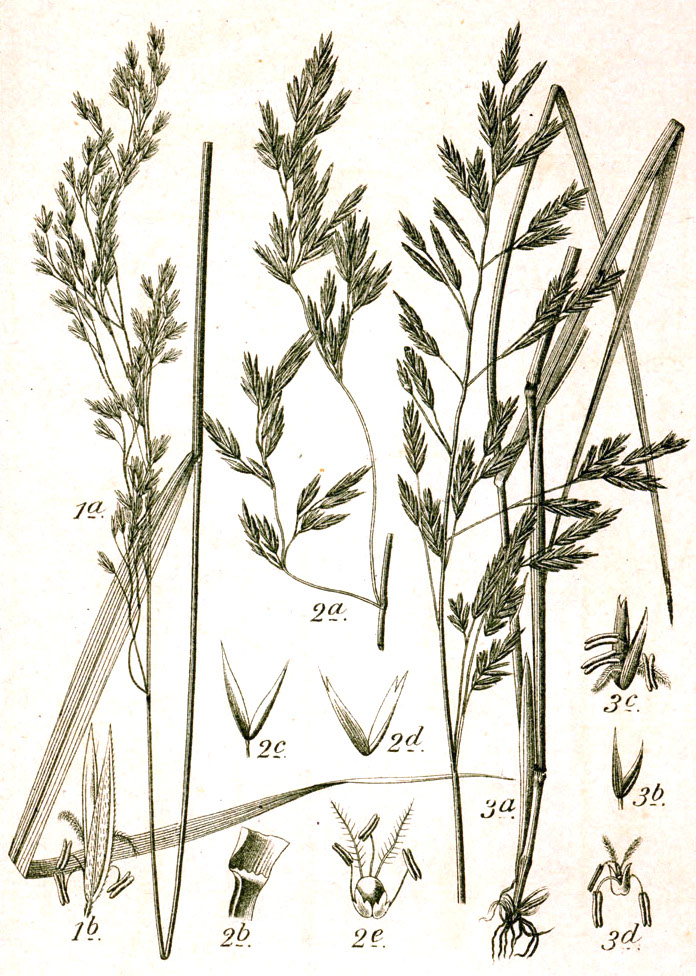 1: Festuca altissima All., Festuca sylvatica (Pollich) Vill. 2: Festuca arundinacea Schreb., syn. Schedonorus arundinaceus (Schreb.) Dumort., nom. ill. 3: Festuca pratensis Huds., syn. Schedonorus pratensis (Huds.) P. Beauv., Festuca elatior L. Original Caption 1. Wald-Schwingel, Festuca sylvatica Vill. 2. Rohr-Schwingel, F. arundinacea Schreb. 3. Wiesen-Schwingel, F. elatior L.